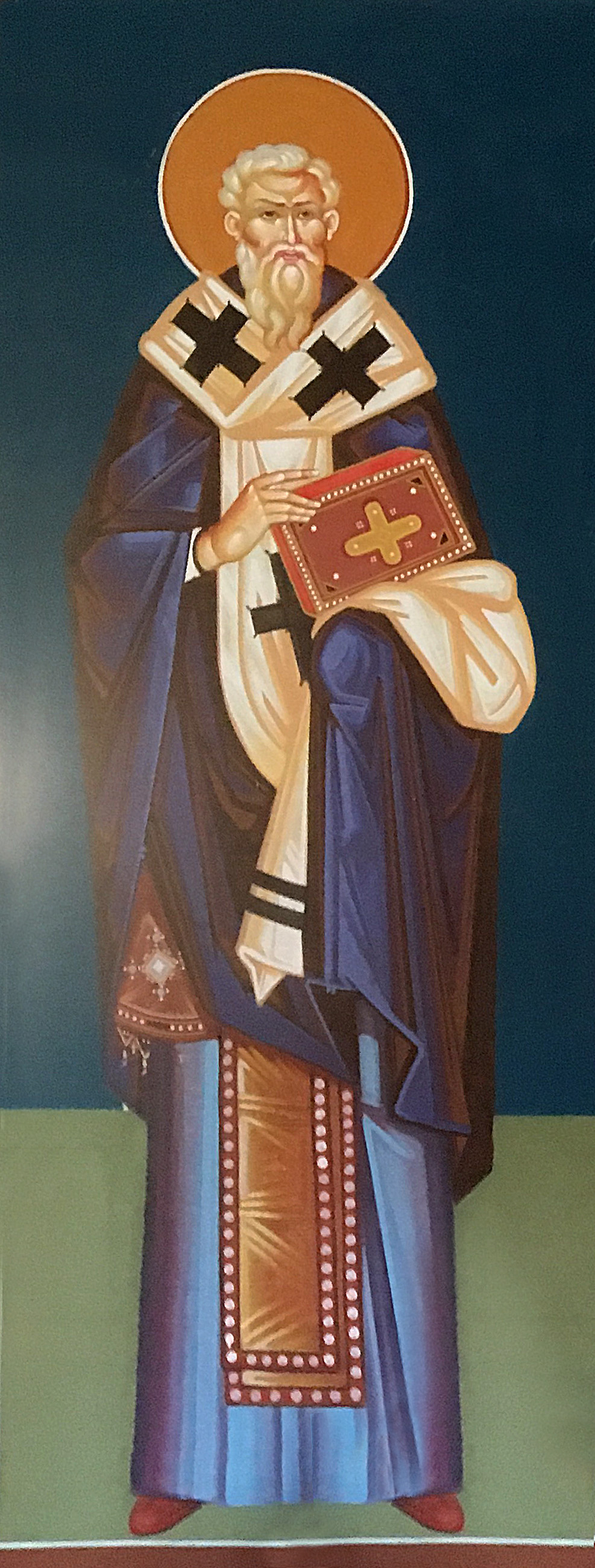 Saint Ignatios of Constantinople (contemporary orthodox iconography) Serbia